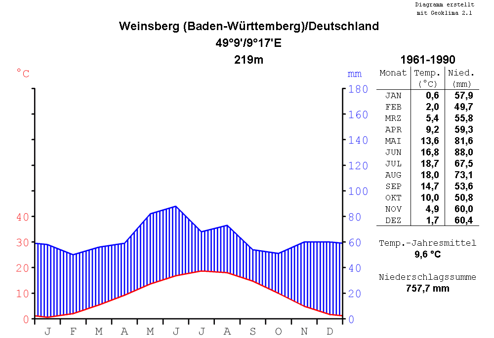 climate chart of Weinsberg, Baden-Württemberg, Germany, for the period of time from 1961 to 1990, in the format by Walter and Lieth, metric, °Celsius and millimeters, chart made with Geoklima 2.1, label in German